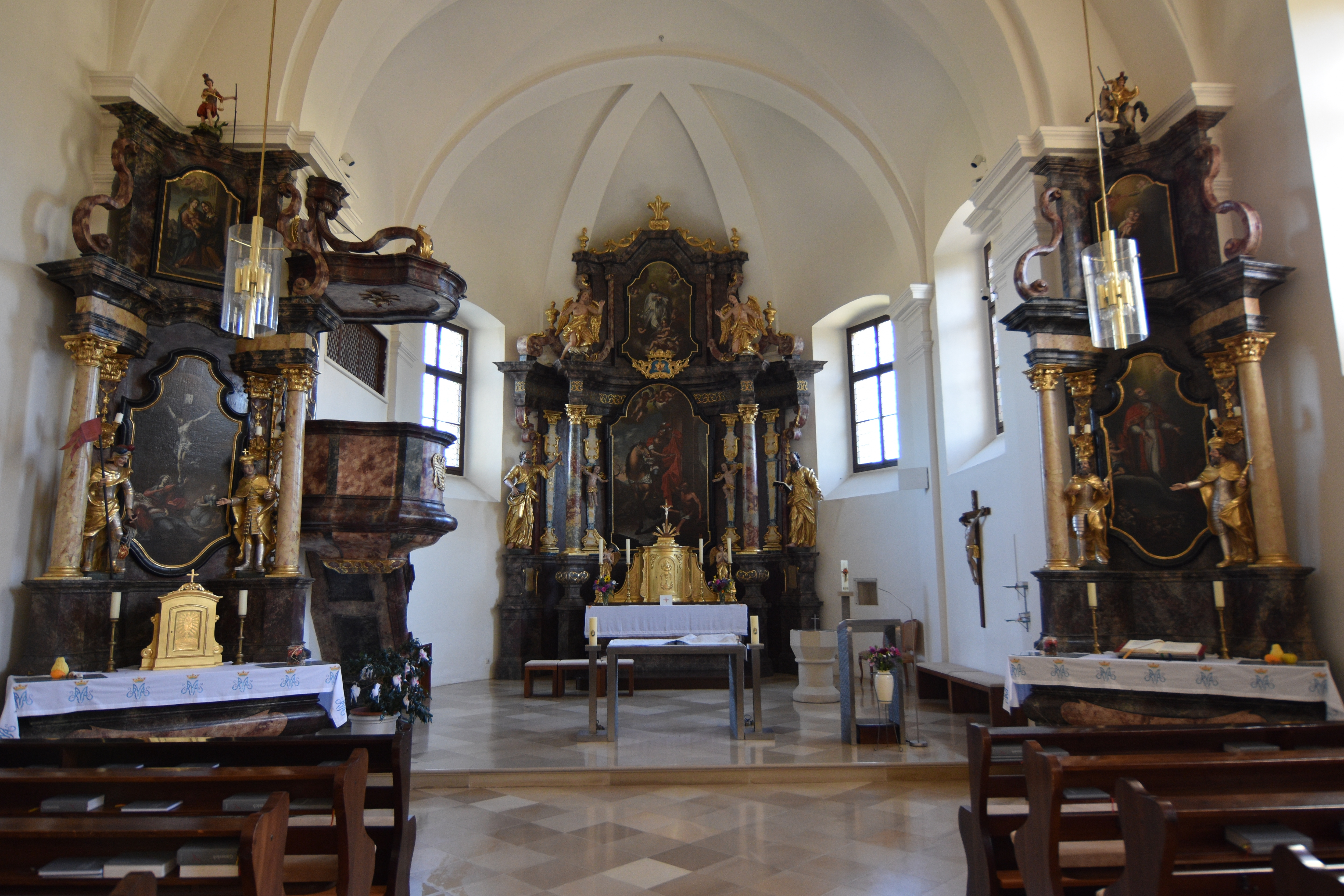 Pfarrkirche St. Martin an der Raab - Interior